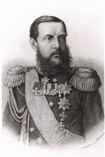 Grand Duke Konstantin Nikolaevich of Russia